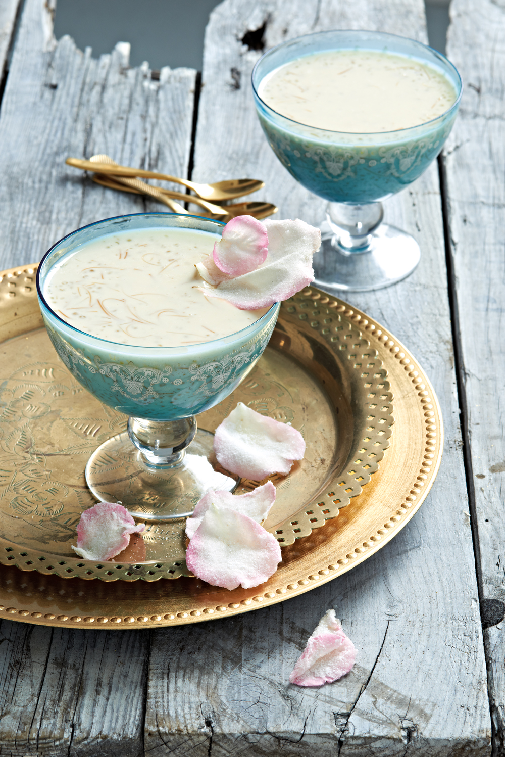 This Cape Malay dish is a sweet, warm milk drink served half way through the holy month of Ramadan. This is an image of food from South Africa